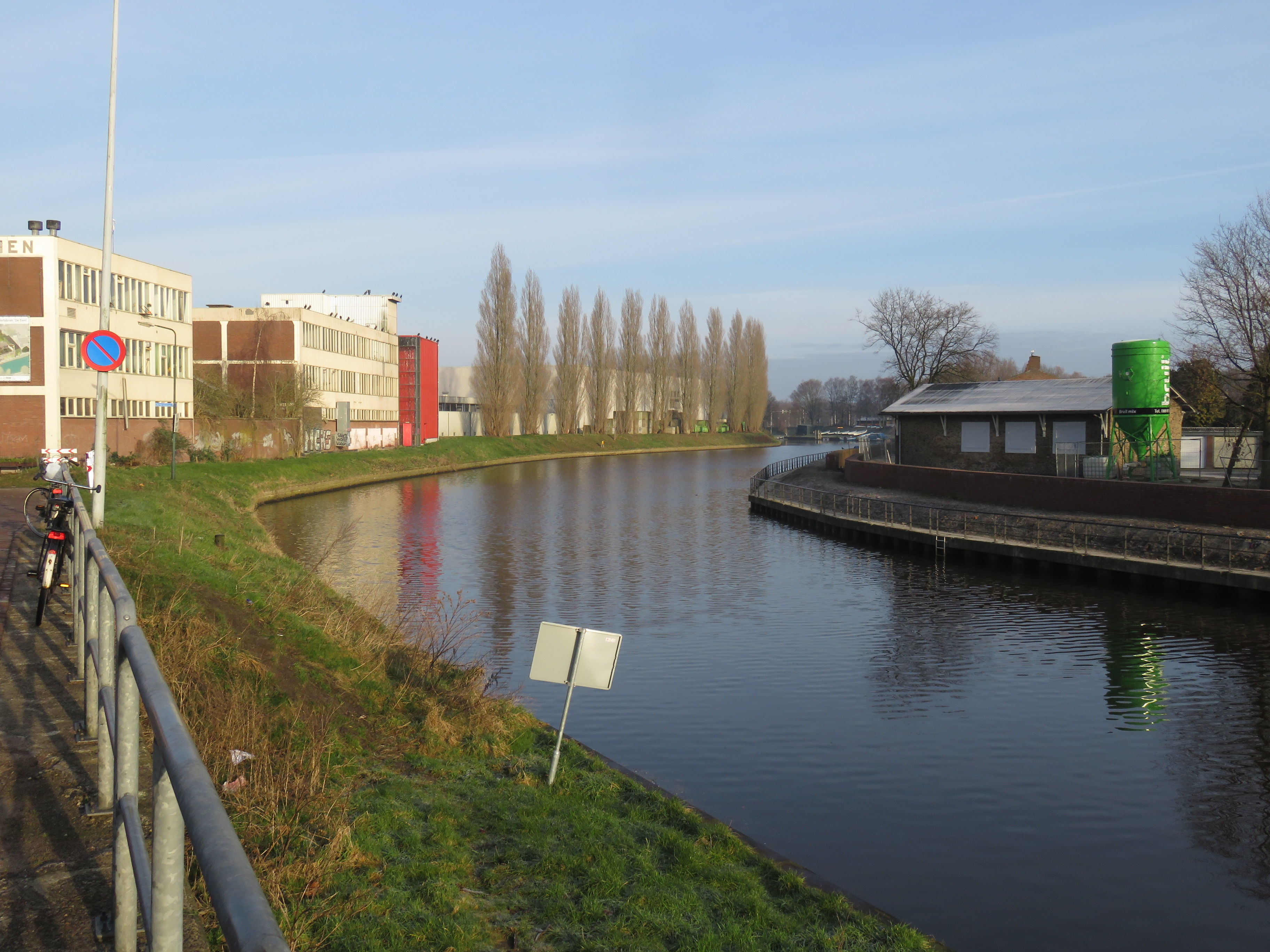 The river Eem (Amersfoort), with on the left the gate of the camperplace and the buildings of the War. On the right side of the river work riverside